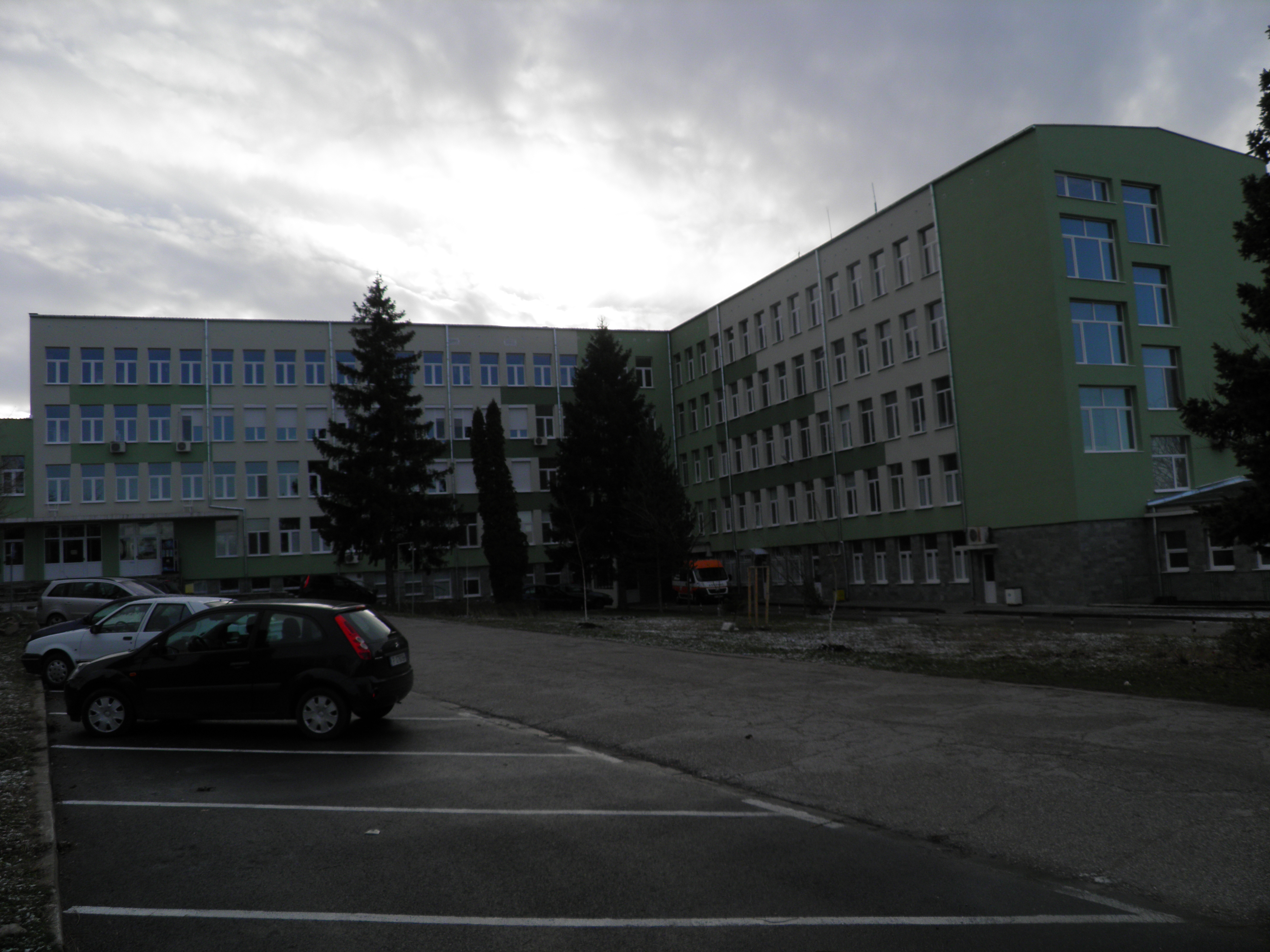 Hospital in Pavlikeni,Bulgaria